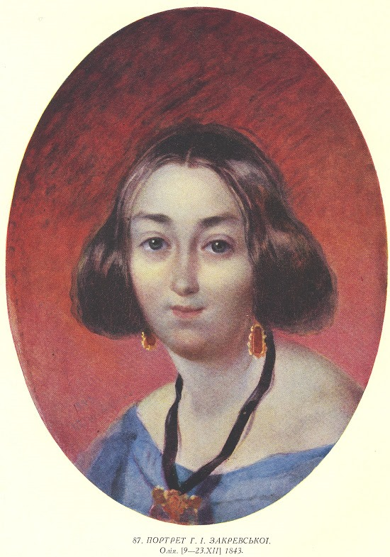 Painting of Taras Shevchenko